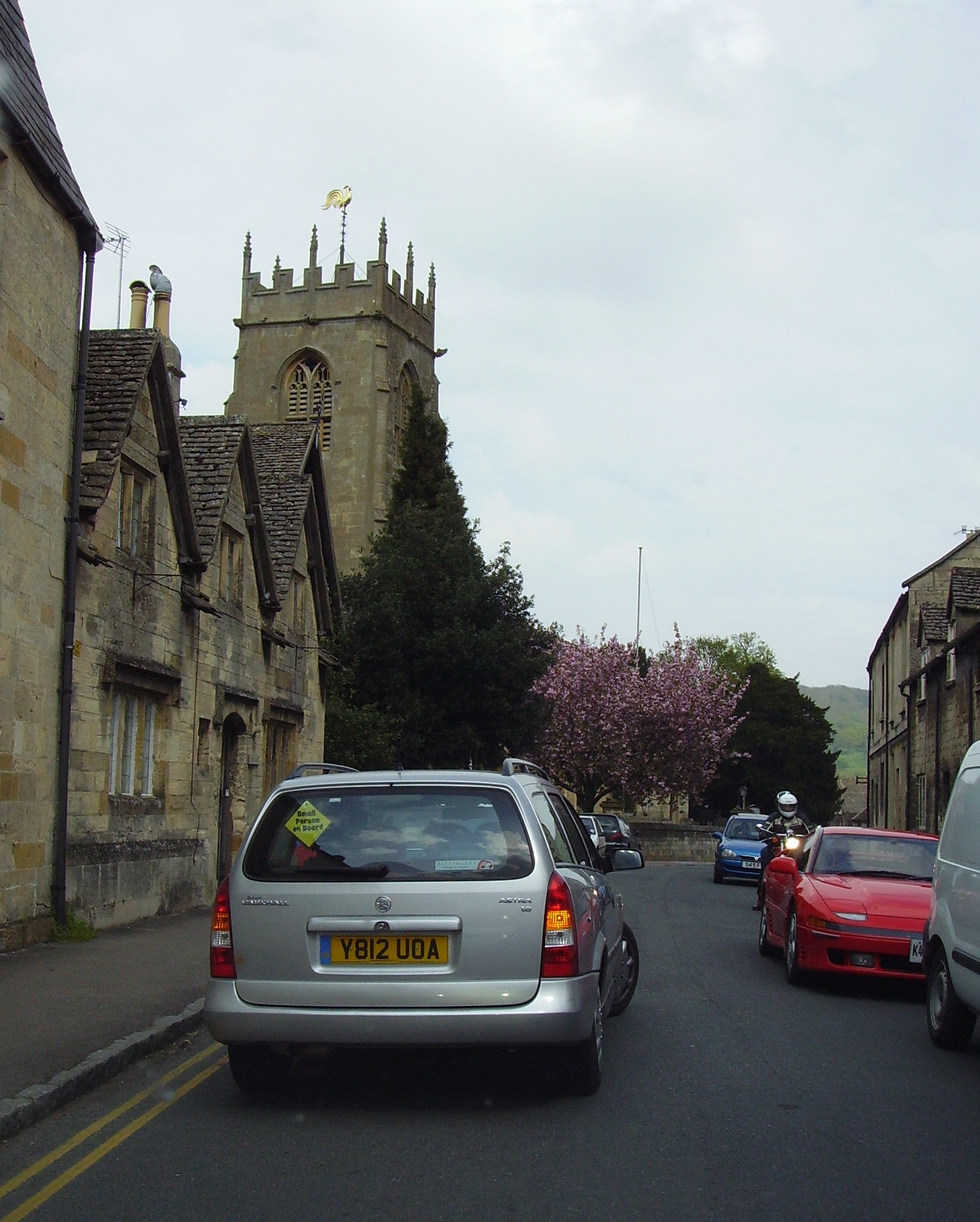 Photographer: User:Ballista Talk